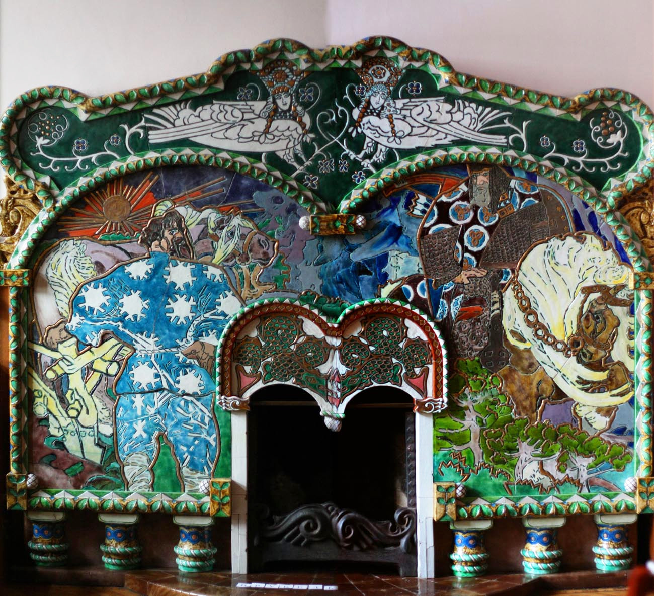 Fireplace "Volga Sviatoslavich and Mikula Selianinovich" made according to M.Vrubel's sketches